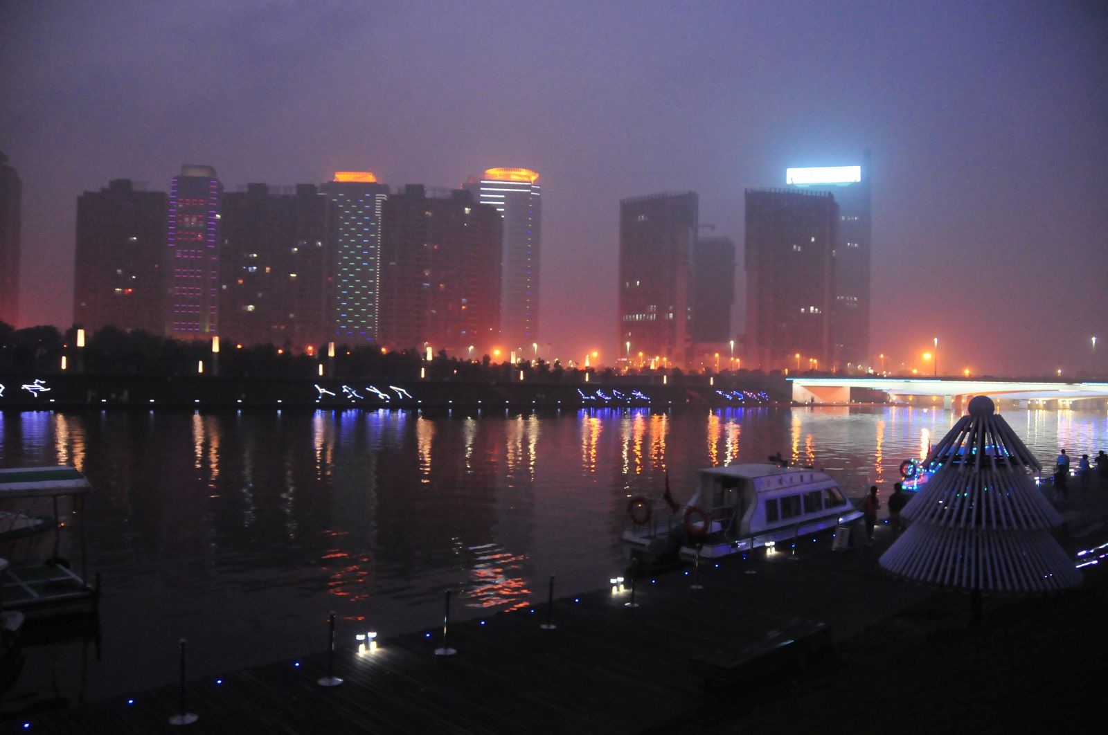 zhengzhou_east_district_at_night